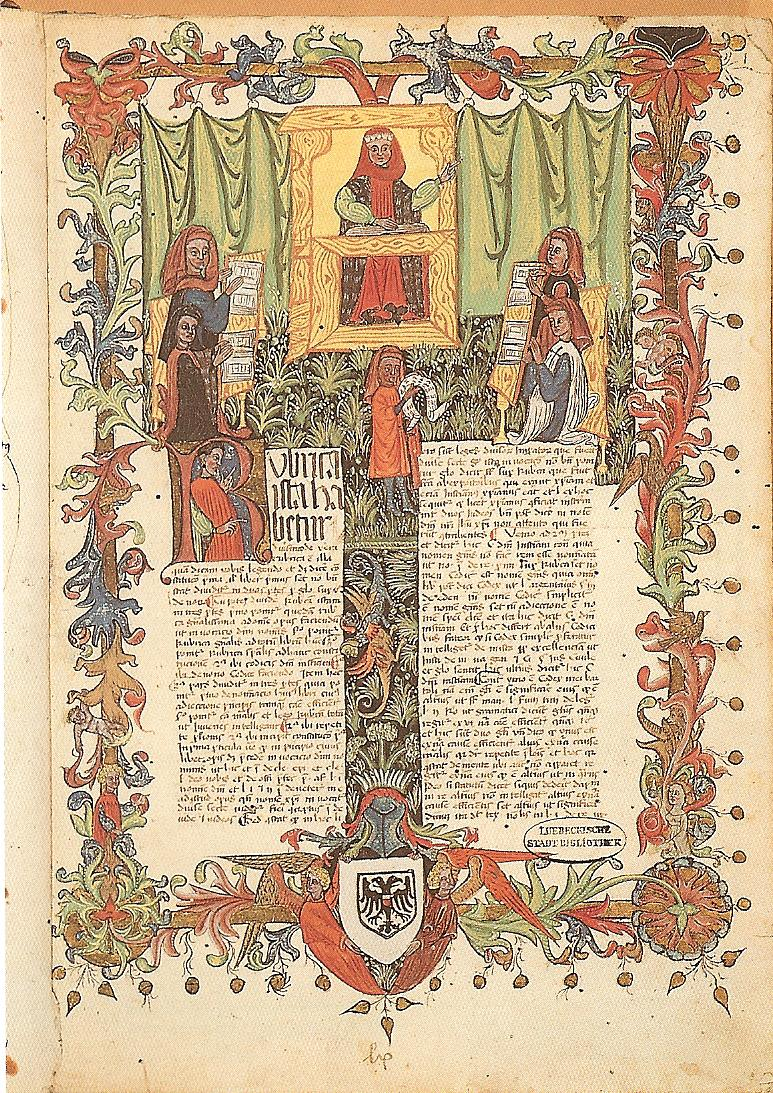 Title page of a commentary by Bartolus de Saxoferrato, illuminated by Johannes Falkenstein of Erfurt, from the Library of Simon Batz, later Stadtbibliothek Lübeck, Ms jur.gr. 2° 6